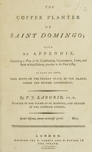 The Coffee Planter of Saint Domingo; with an appendix, containing a View of the Constitution, Government, Laws and State of that Colony, previous to the year 1789. To which are added, Some hints on the present state of the island under the British Goverment.